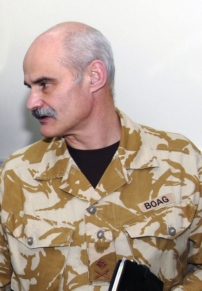 KABUL, Afghanistan - International Security Assistance Force Joint Command Chief of Staff British Maj. Gen. Colin Boag speaks with U.S. Ambassador to Canada Ms. Cindy Termorsheizen during a visit to the IJC Dec. 23. (ISAF Joint Command photo by U.S. Air Force Master Sgt. Matthew Millson)